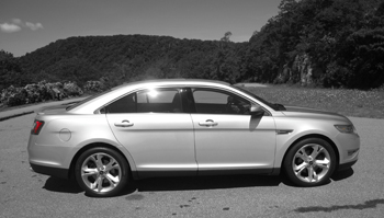 2010 Ford Taurus SHO photographed in Smoky Mountain National Park on June 16, 2009